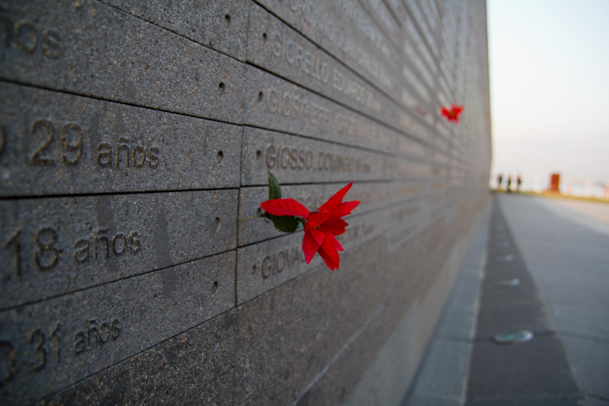 Monument Against State Terrorism. Memory Park. Buenos Aires.